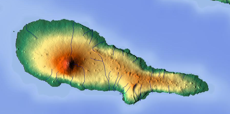 Relief map of Pico, Azores